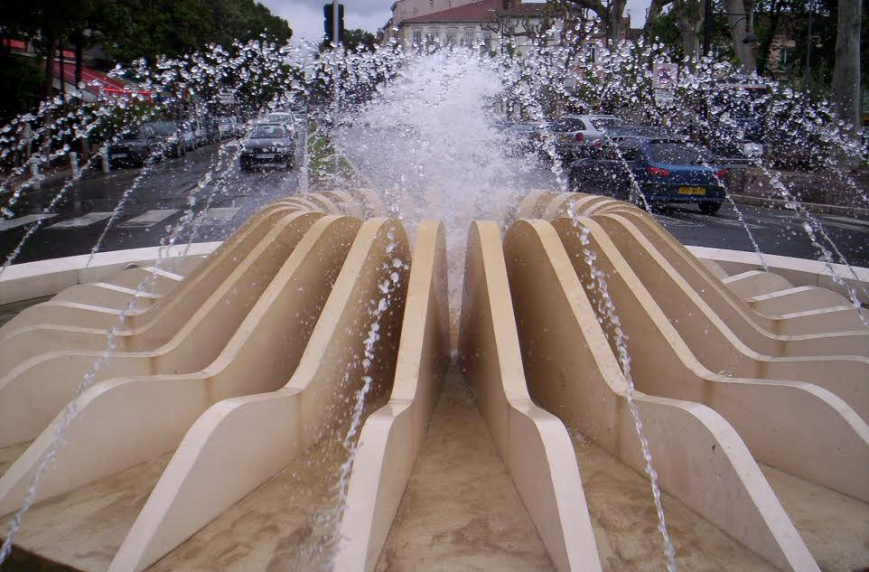 2007. Marble